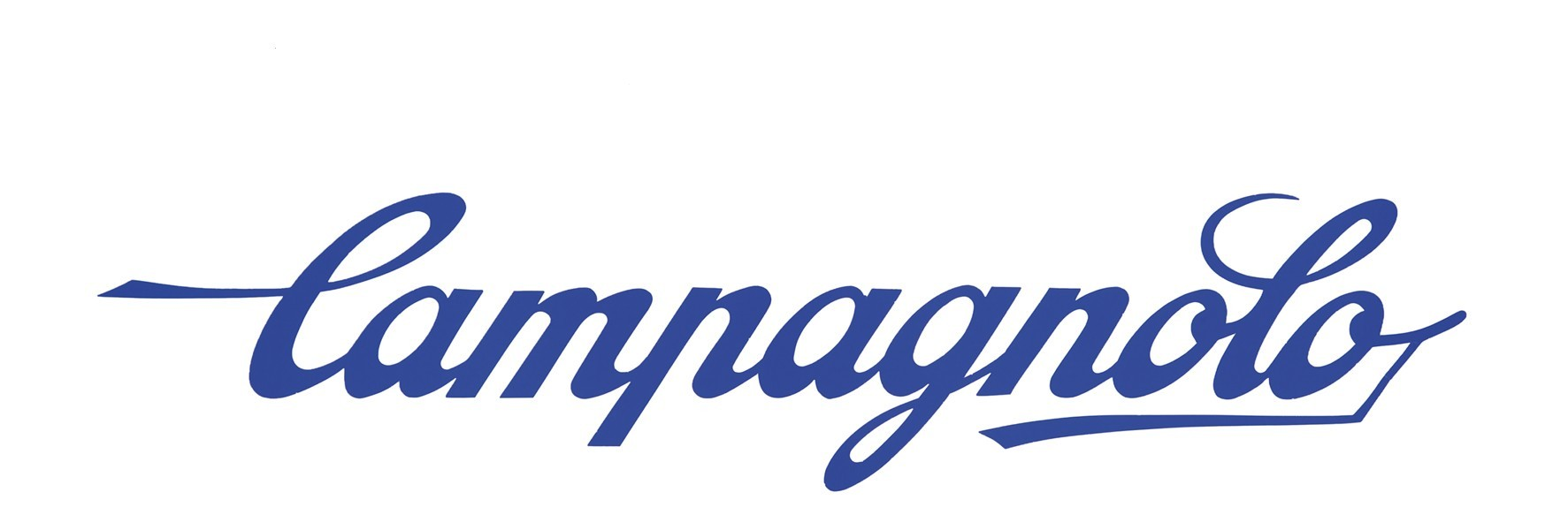 repka